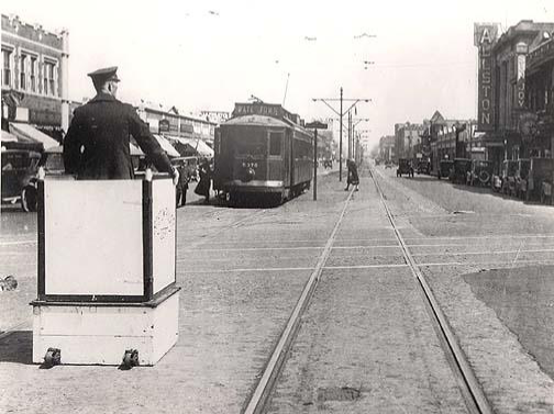 A trolley outbound to Watertown on Brighton Avenue at Harvard Avenue around 1910. This line would later become known as the Green Line's A Branch.